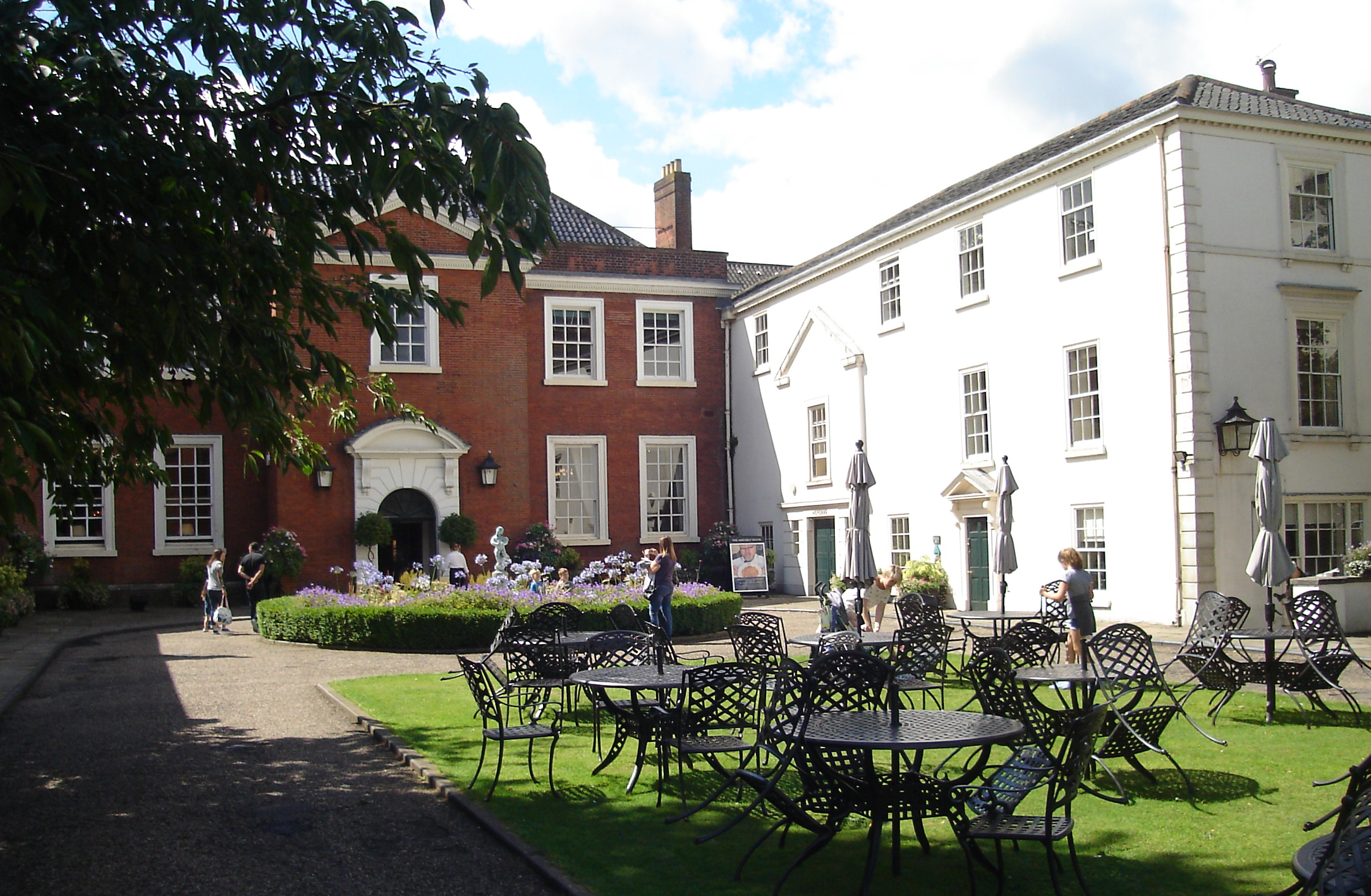 A view of the Assembly House, Norwich